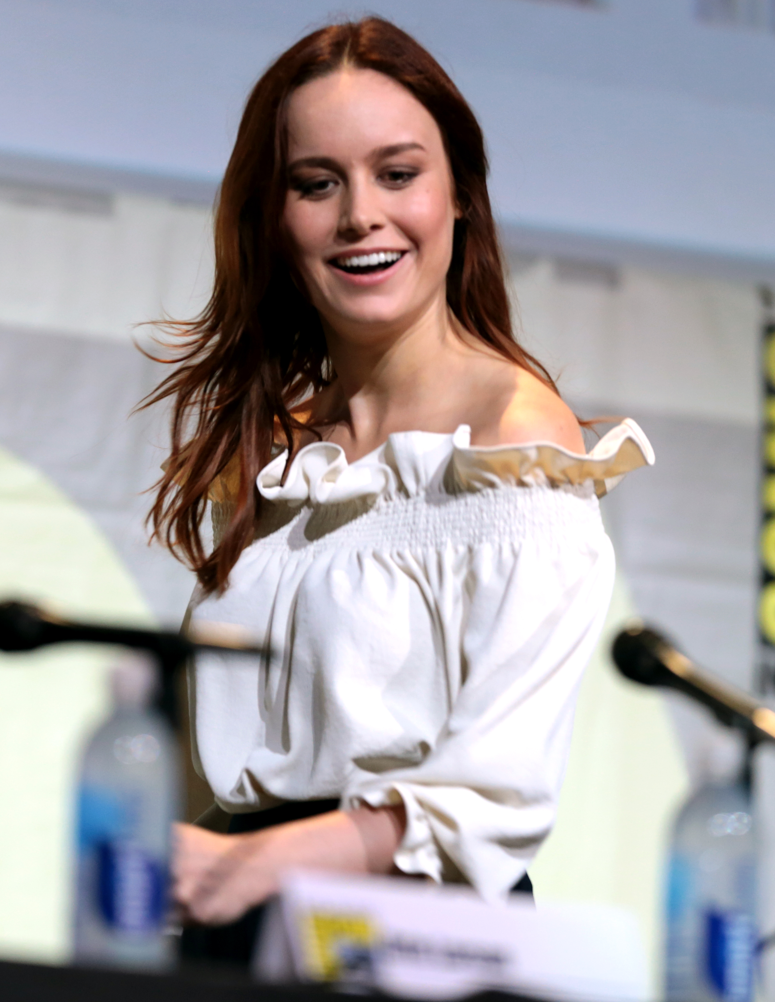 Brie Larson speaking at the 2016 San Diego Comic Con International, for "Kong: Skull Island", at the San Diego Convention Center in San Diego, California.